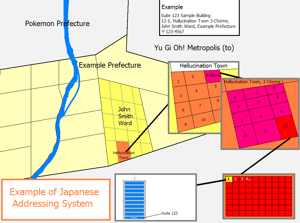 Made by me with Windows Paint.